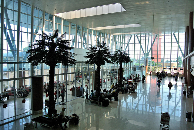 Check in counter Sultan Syarif Kasim II Interantional Airport Pekanbaru